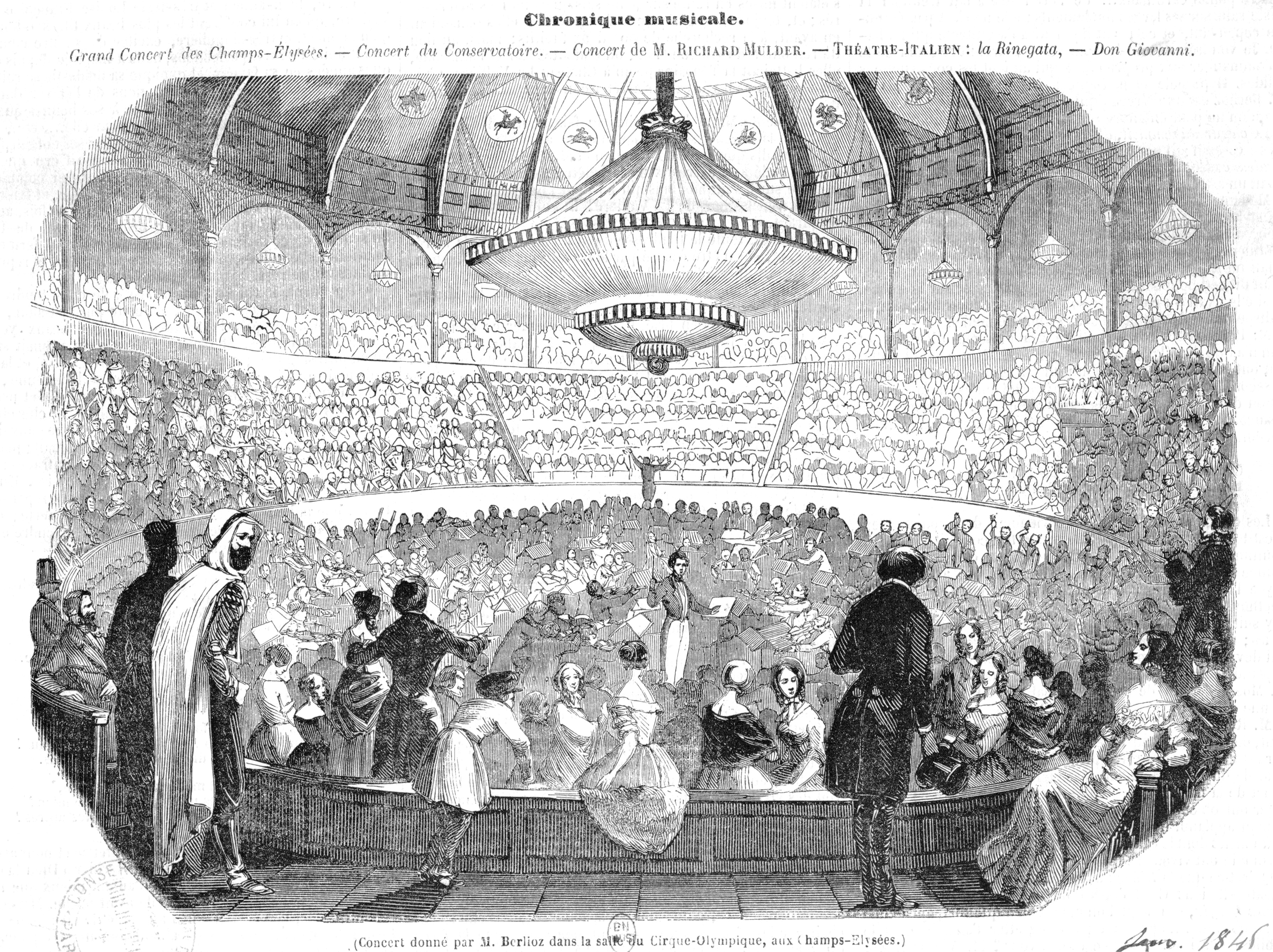 "Concert given by M. Berlioz in the hall of the Cirque Olympique, on the Champs-Élysées" (L'Illustration, 25 January 1845)